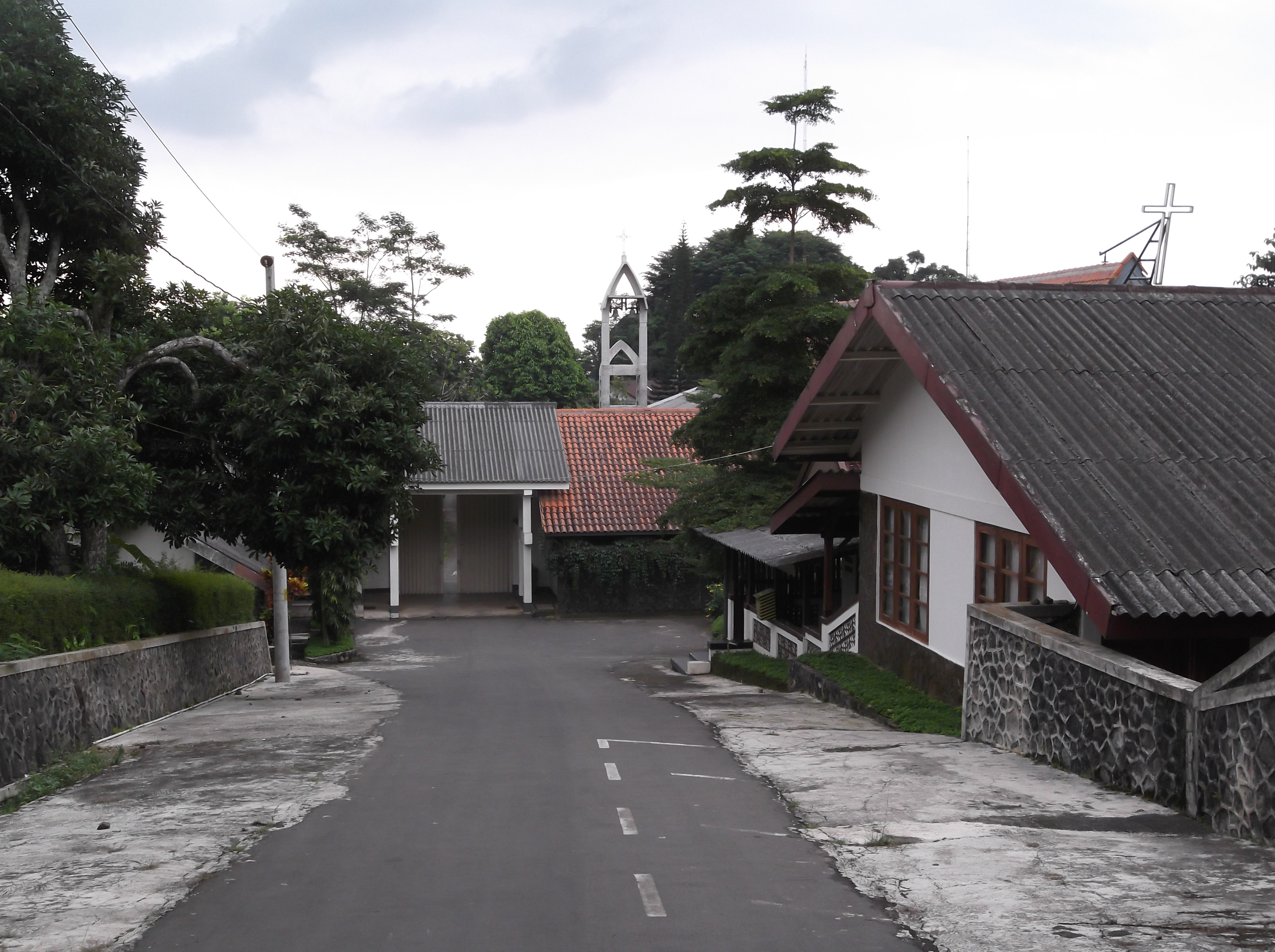 Entrance to the Monastery of Saint Mary Rawaseneng, Temanggung, Indonesia. Gueshouses in the right side of the road; the church located behind them, on the right side of the monastery's gate.